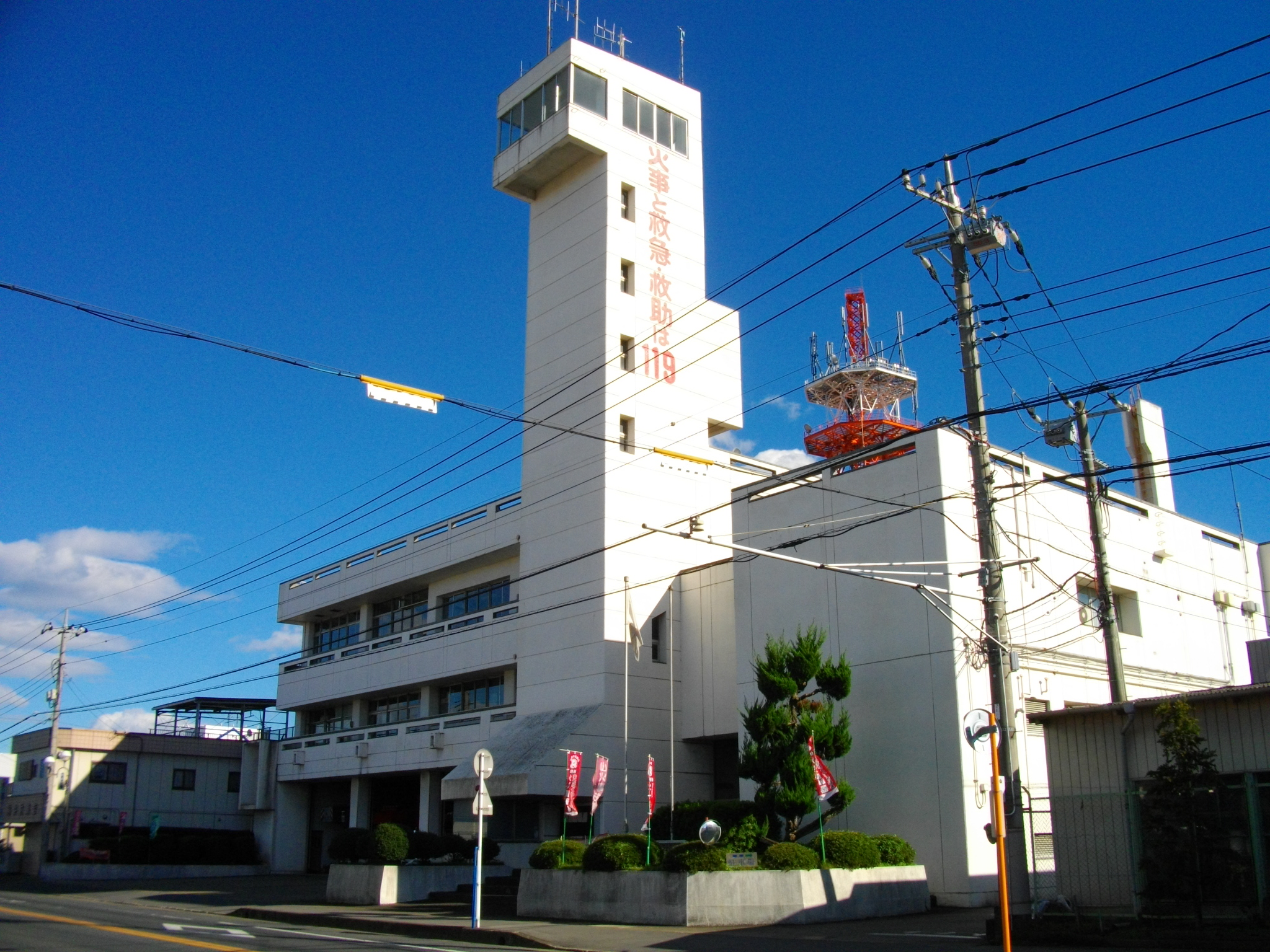 Sano Fire Department